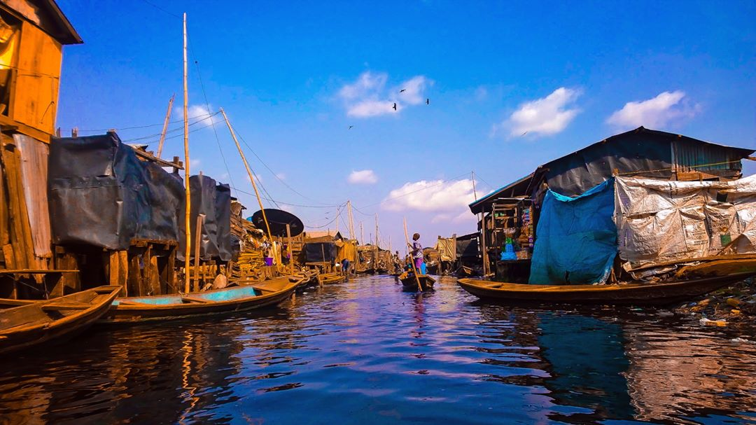 There's peace to be found in the sun burning the back of me,while my boats slowly sails on the surface of black waters,eagles in the sky searching for a perfect hunt. My shot of the day Location : Makoko Lagos Nigeria .Architecture of the clouds.... Sunset 🌇 is my best colour , , location makoko Lagos Nigeria